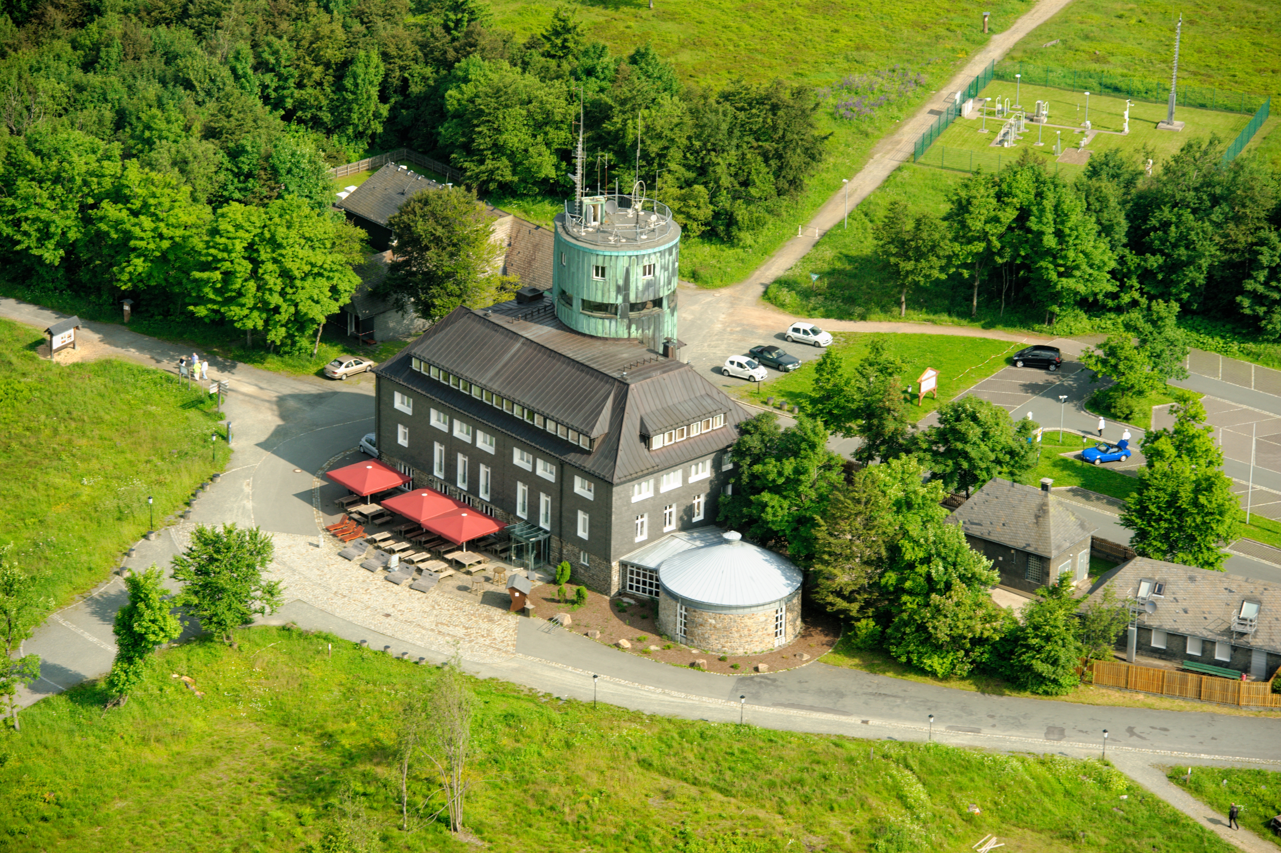 Fotoflug Sauerland-Ost, Kahler Asten The making of this document was supported by the Community-Budget of Wikimedia Germany.